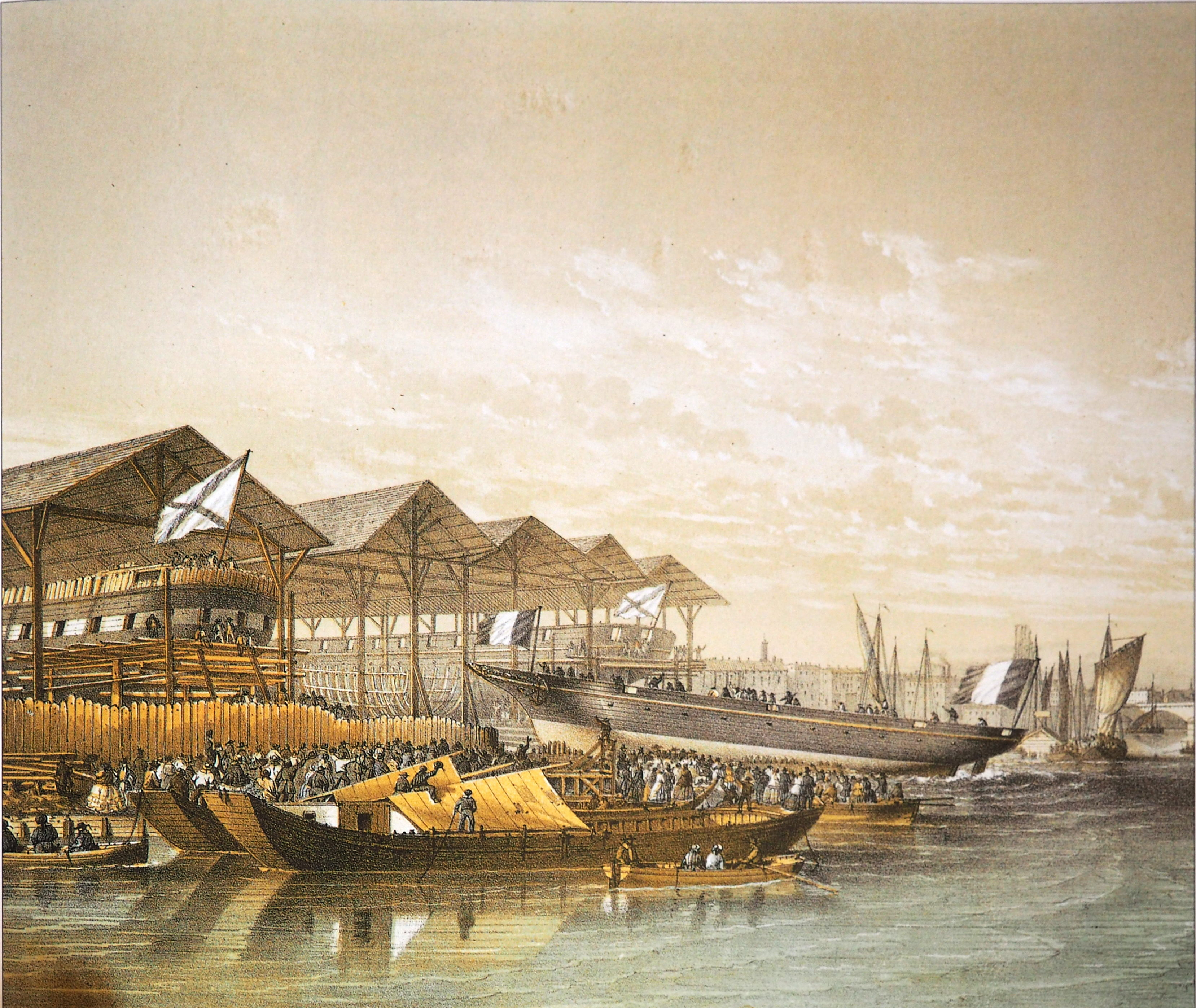 Launch of the French warship Renaudin (1857) at the Arman shipyard in Bordeaux. Watercolour by Lebreton. Also visible are two ships being built for Russia: the frigate Svetlana and the corvette Baïan. Standart (1857), a yacht for the Emperor of Russia is also visible, at an earlier stage of construction.